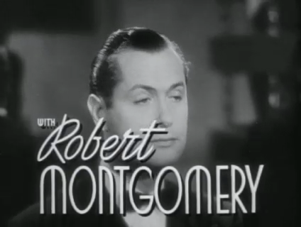 Robert Montgomery in The First Hundred Years, film by Richard Thorpe (1938)